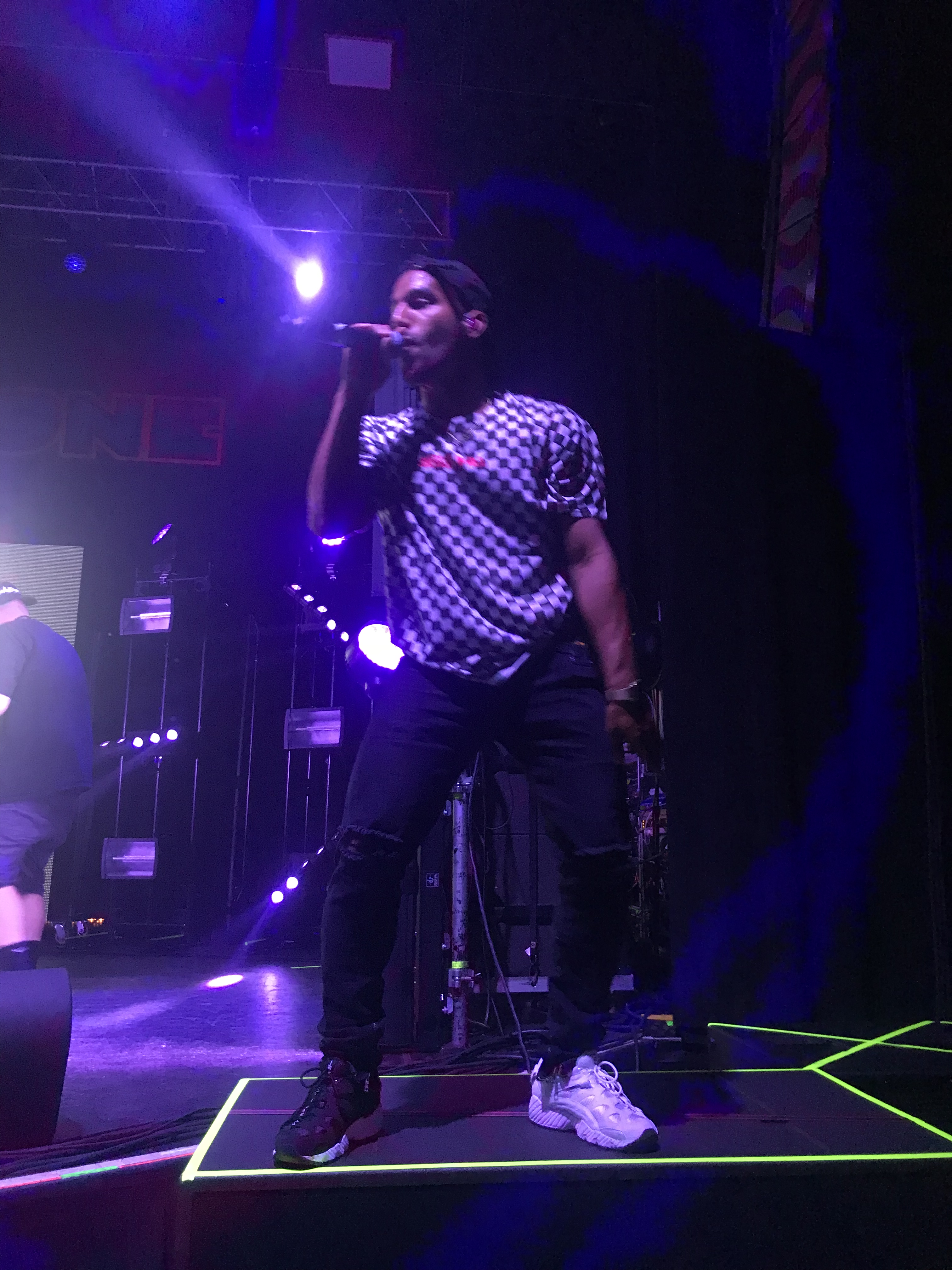 Tech N9ne, Futuristic, Dizzy Wright - Live at the Plaza Live in Orlando on November 15, 2018.